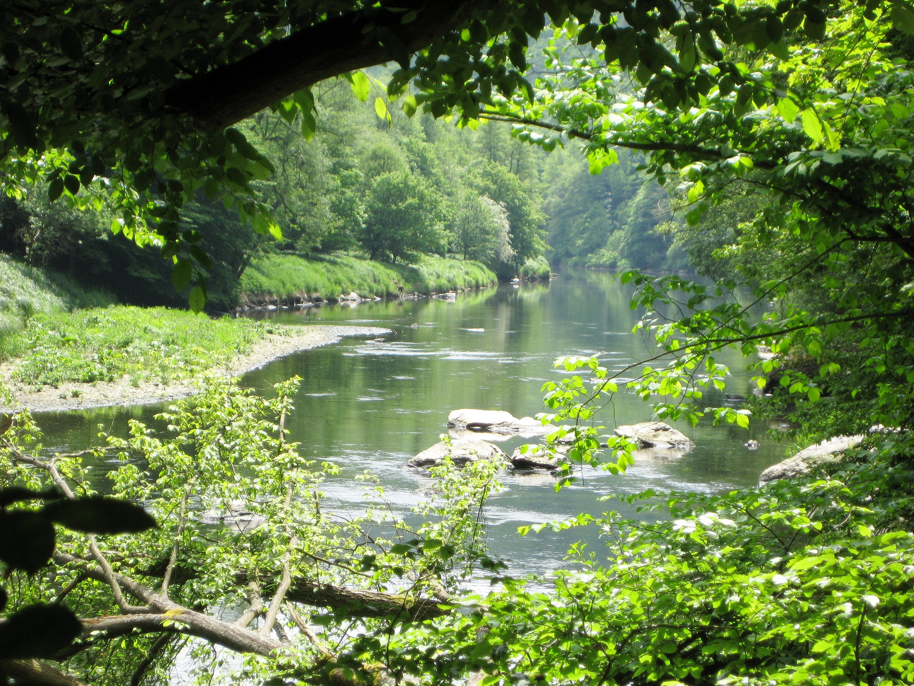 Thaya, Thayatal National Park